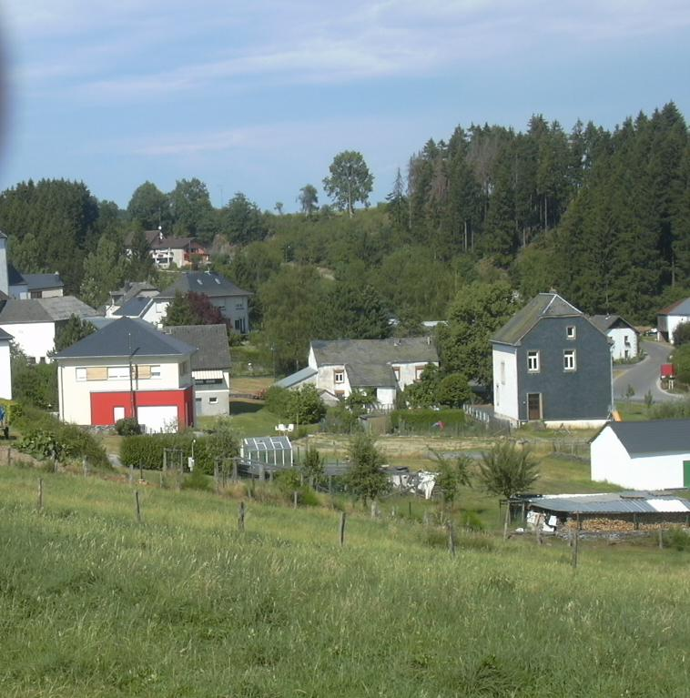 Holler n Luxemburg own work papa1234 2006-07-22